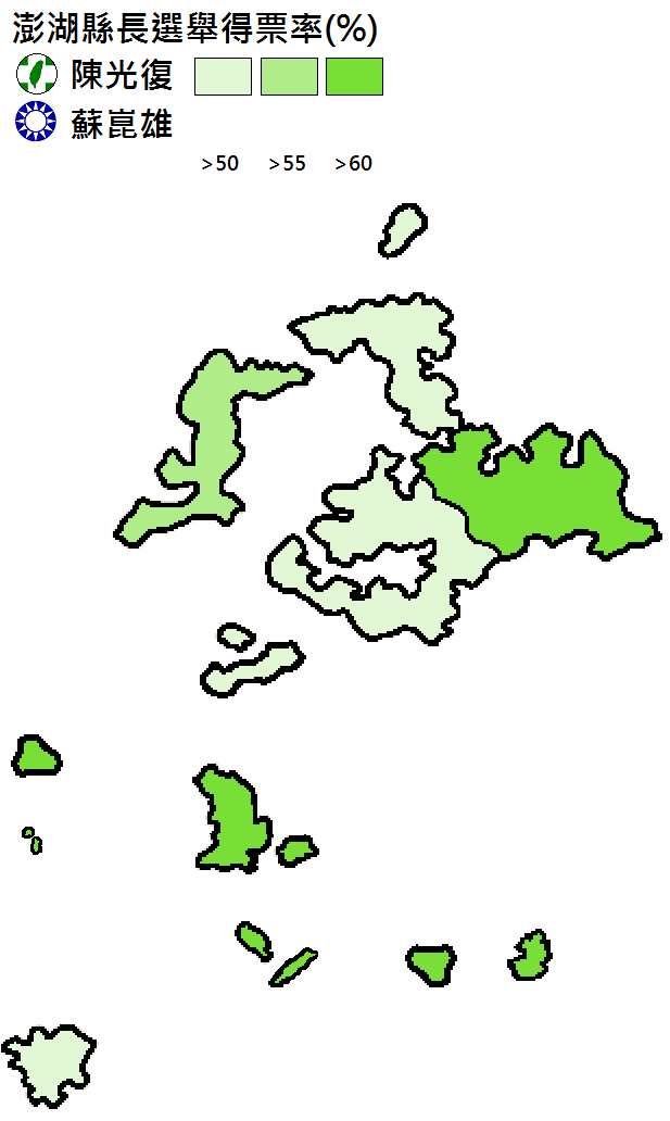 Penghu 2014